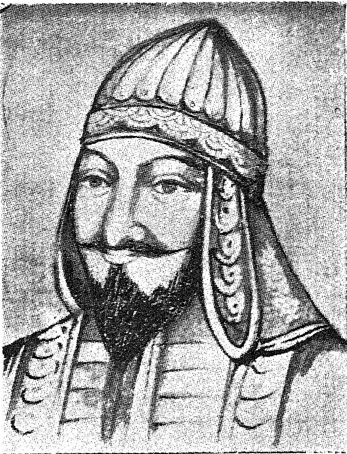 Azimullah Khan, counselor and comrade in arms of Nana Saheb Peshwa